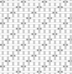 Diagram of the structure of a balanced 3/1 twill textile.